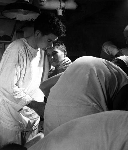 Pvt. J.B. Slagle, USA, receives his daily dressing of wounds on board USS SOLACE enroute from Okinawa to Guam. May 1945. Lt. Victor Jorgensen.